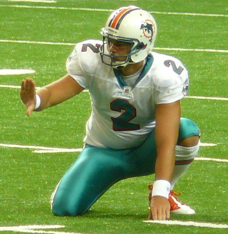 If used somewhere other than Wikipedia, Nelson, by name.